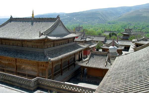 Tibetan Qutan Si Monastery — in Ledu, Qinghai.